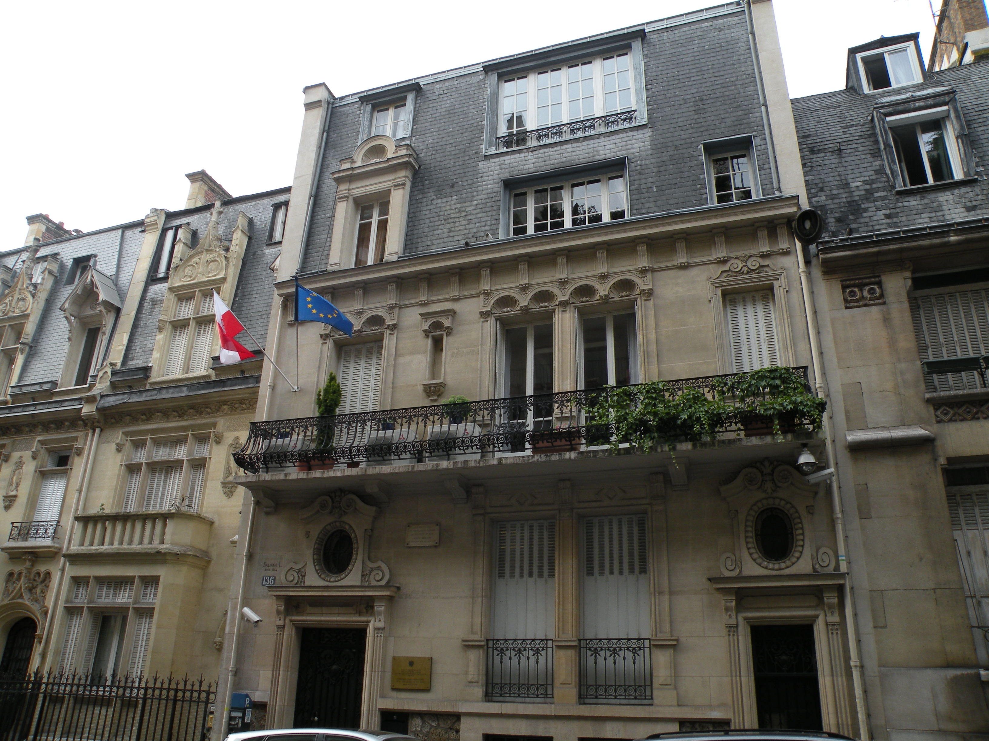 Polish delegation to OECD.